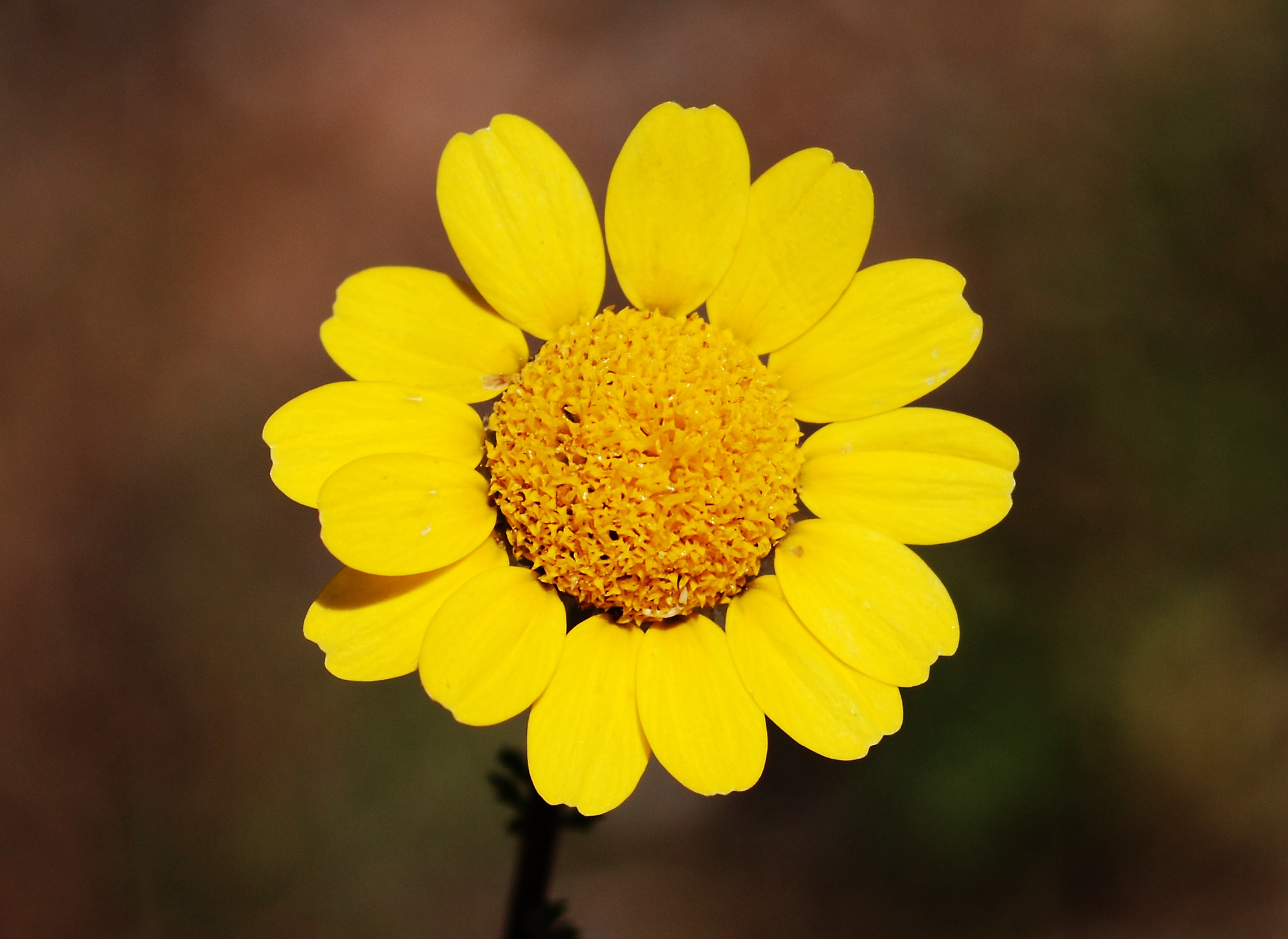 Yellow chamomile (Anthemis tinctoria)